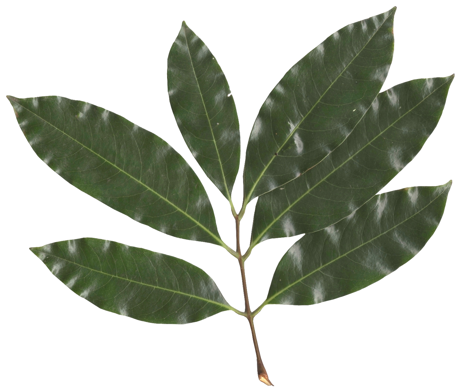 (scanned) leaf of Lychee (Litchi chinensis)